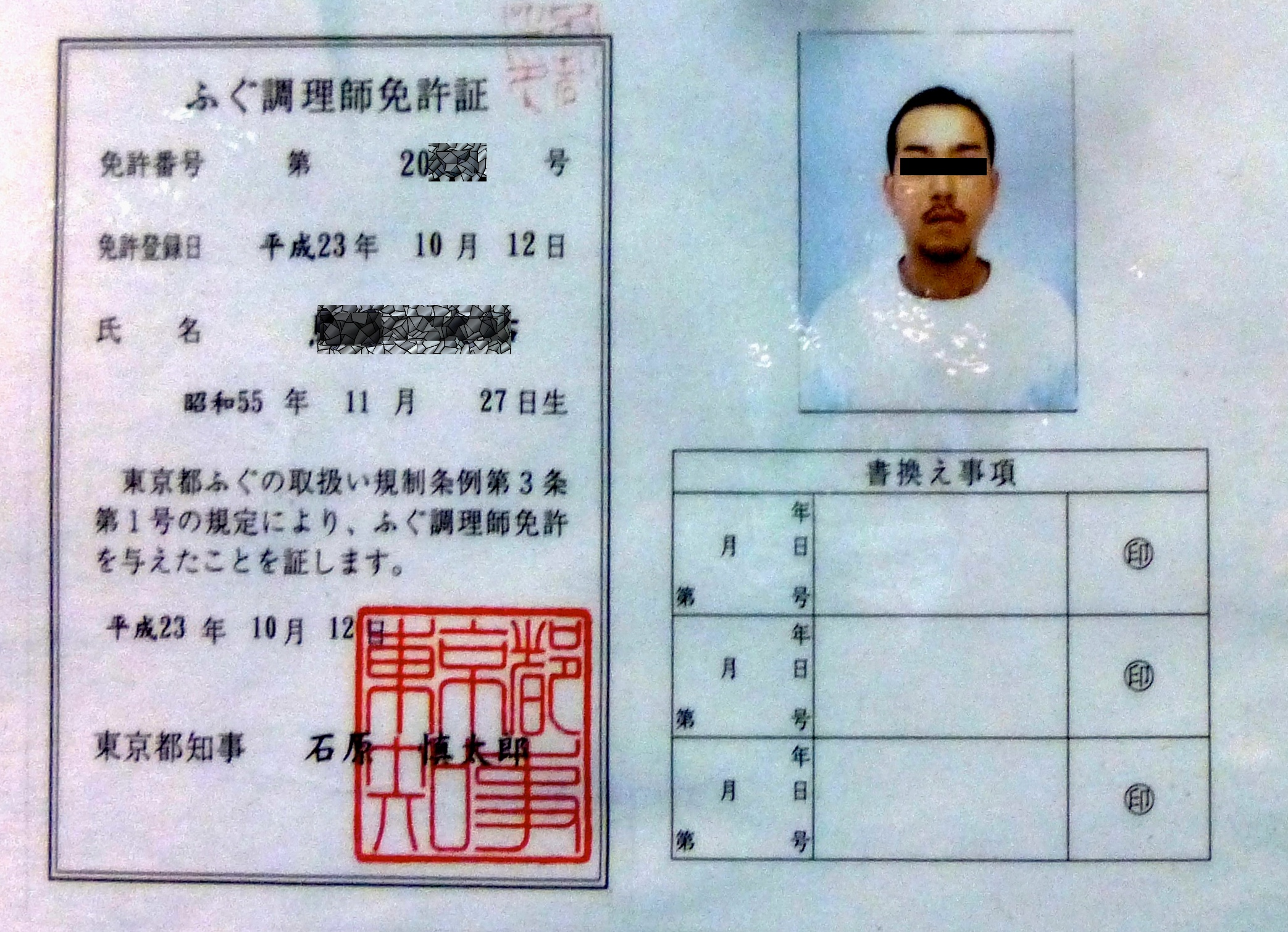 Official fugu preparation license with face, license number and name censored.